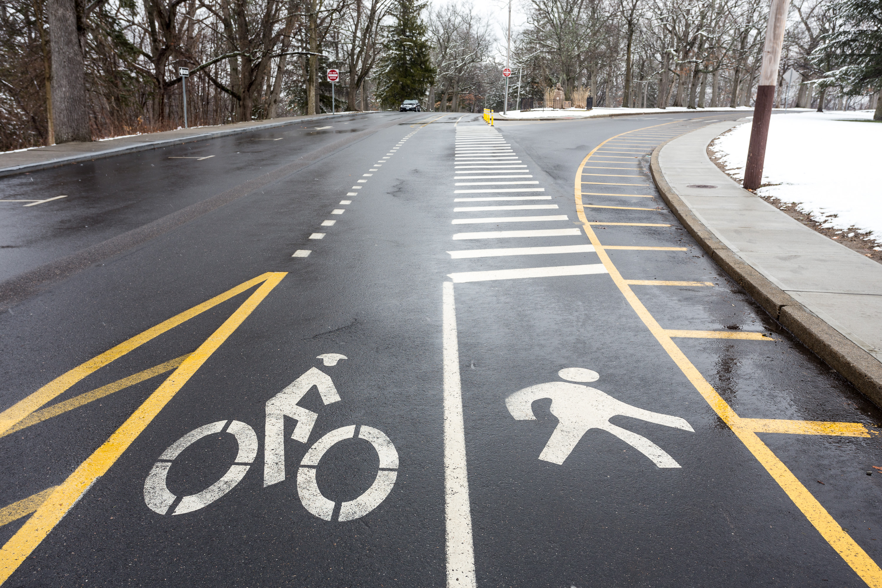 New bike lanes in Roger Williams Park, installed June 2017. Northbound car traffic on the far left, and separate lanes for runners, and cyclists. Roger Williams Park, Providence, Rhode Island